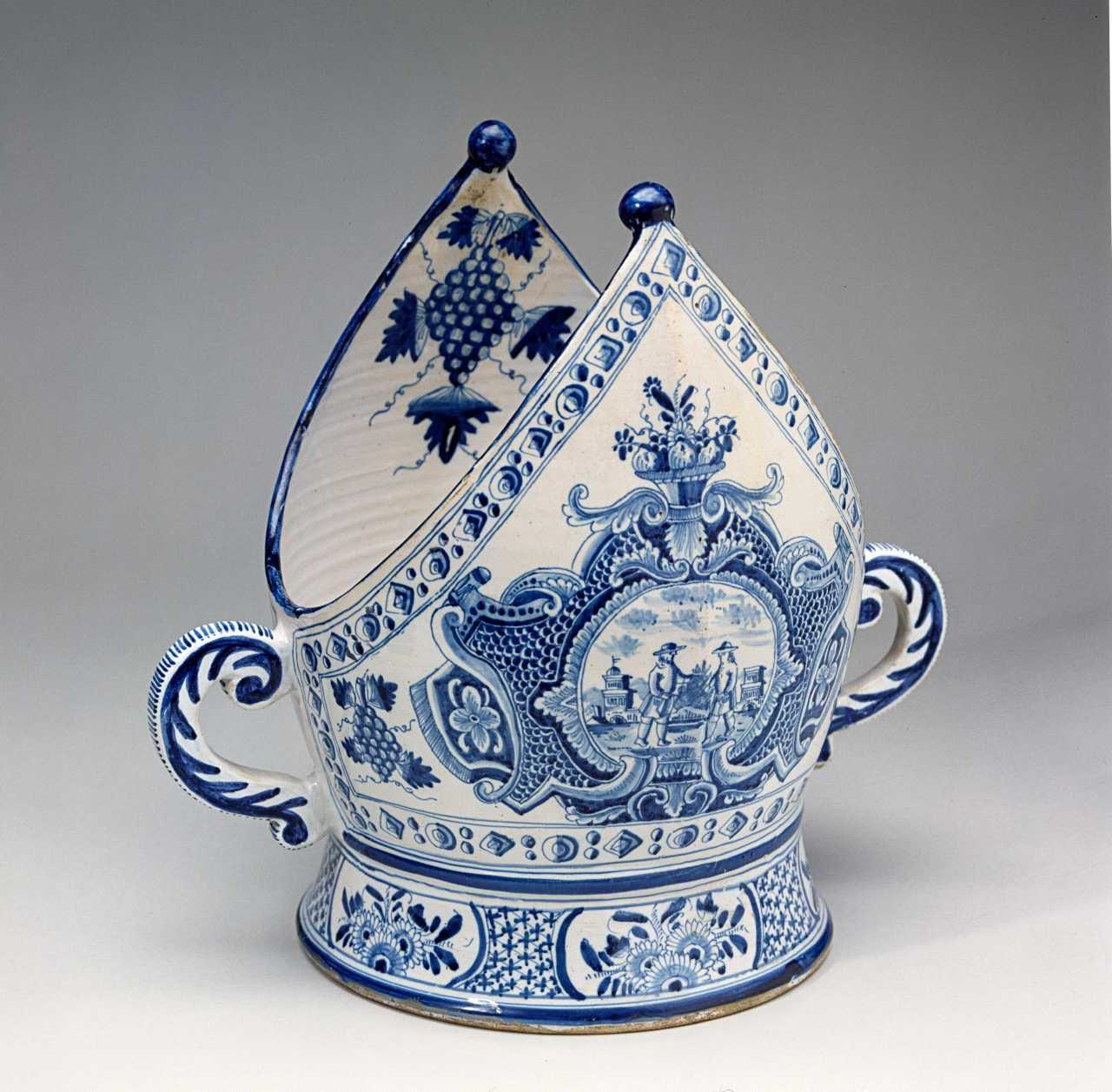 Biskopbolle from Srgw tore Kongensgade Factory in Copenhagen, Denmark